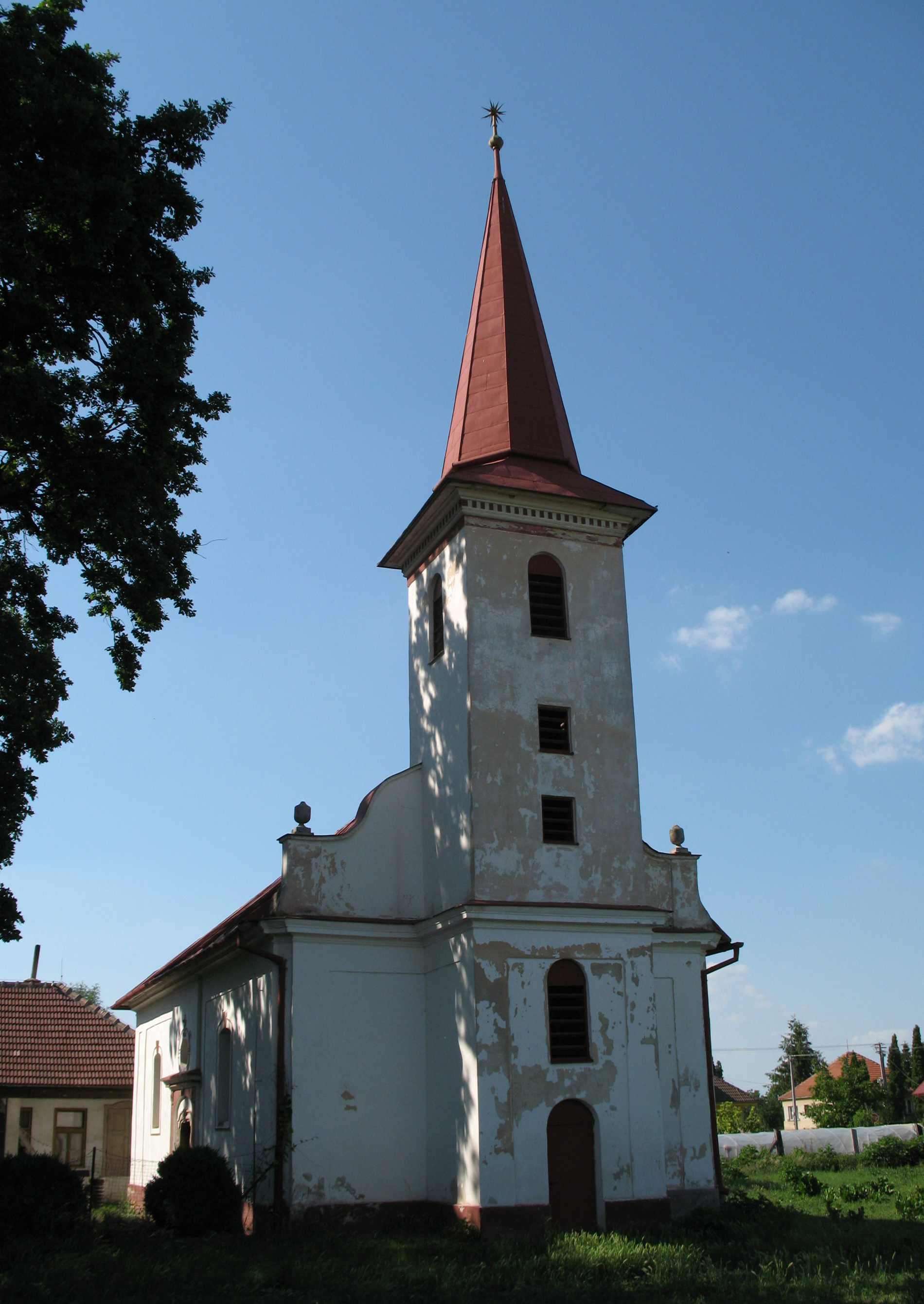 Evanjelic Church of Vinodol (Nitra)